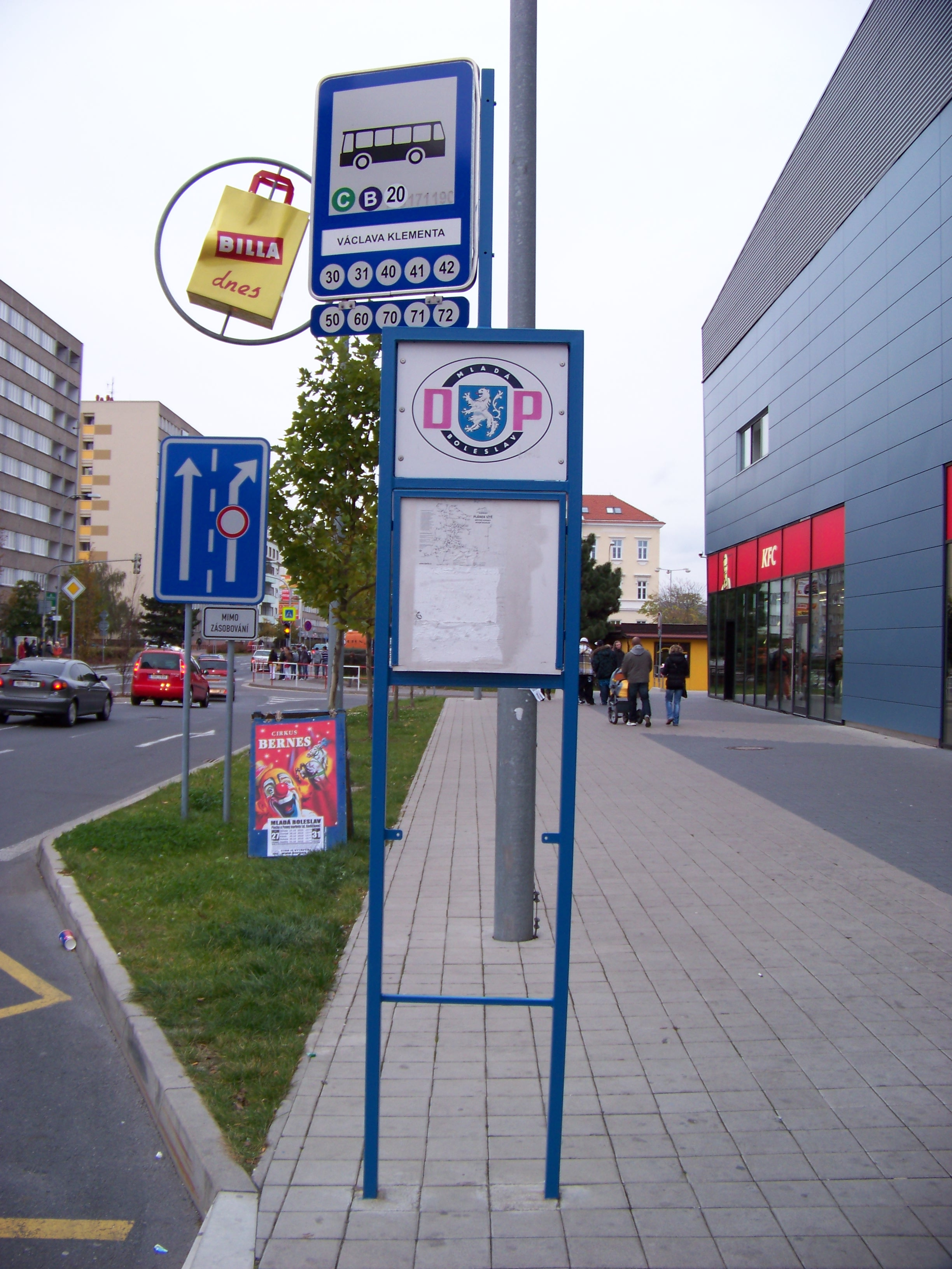 Mladá Boleslav, Central Bohemian Region, the Czech Republic. Václava Klementa street, a bus station.